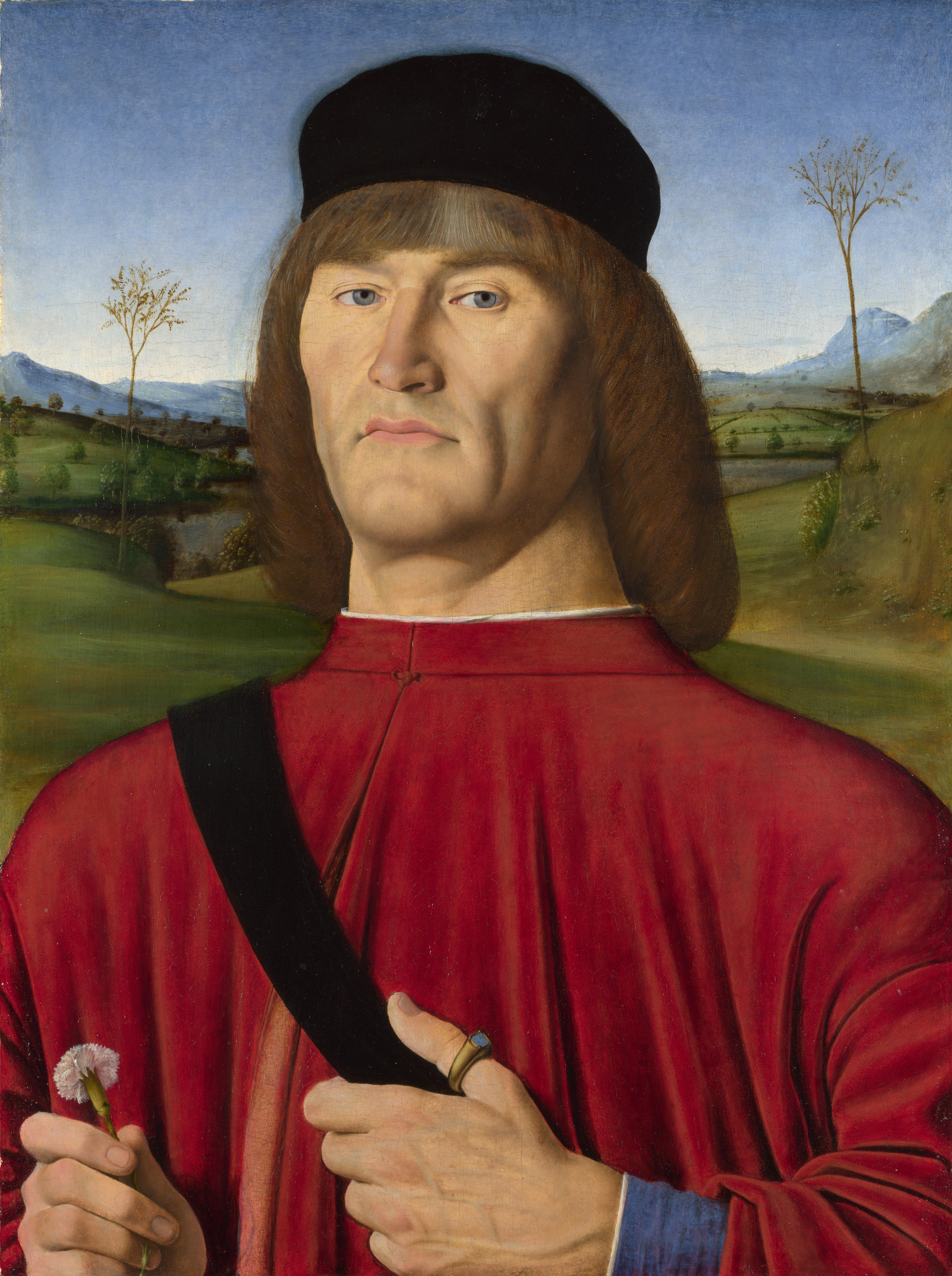 Man with a Pink Carnation c. 1495 Oil and egg tempera on poplar, 50 x 39 cm National Gallery, London The artist belongs to the generation bridging the 15th and 16th centuries and was highly regarded in his own day for his portraiture. This early portrait was executed during the artist's stay in Venice, the sitter, who holds a pink or carnation in his right hand indicating a betrothal portrait, was probably a Venetian senator.